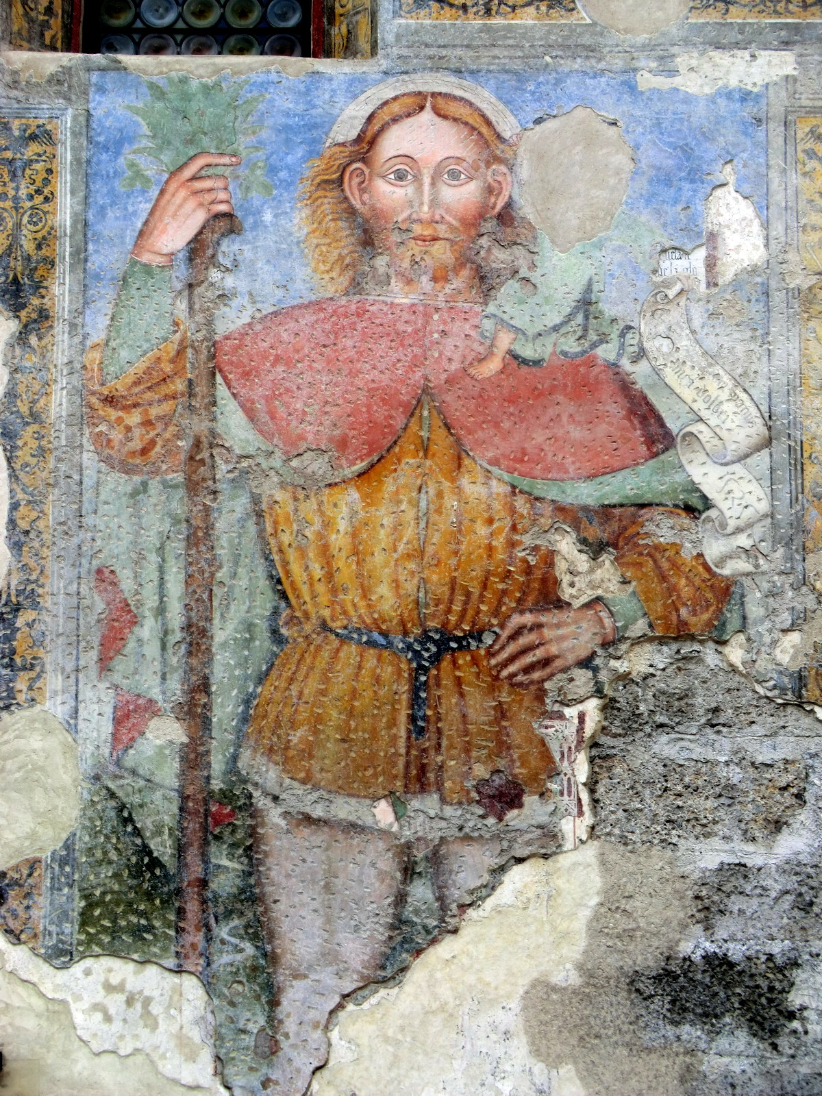 Sant'Anna (Clusone) Native nameChiesa di Sant'AnnaLocationClusone, Lombardy, ItalyCoordinates45° 53′ 24.75″ N, 9° 56′ 58.18″ E Established1414Authority control : Q25410025 institution QS:P195,Q25410025